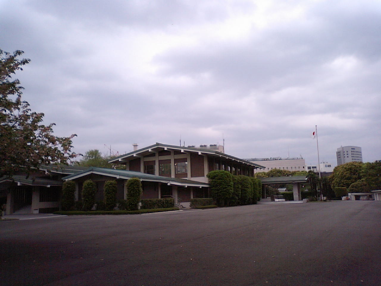 Official Residence of the President House of Councilors of Japan (Chiyoda, Tokyo, Japan). 参議院議長公邸（東京戸千代田区永田町）。門の外から撮影。